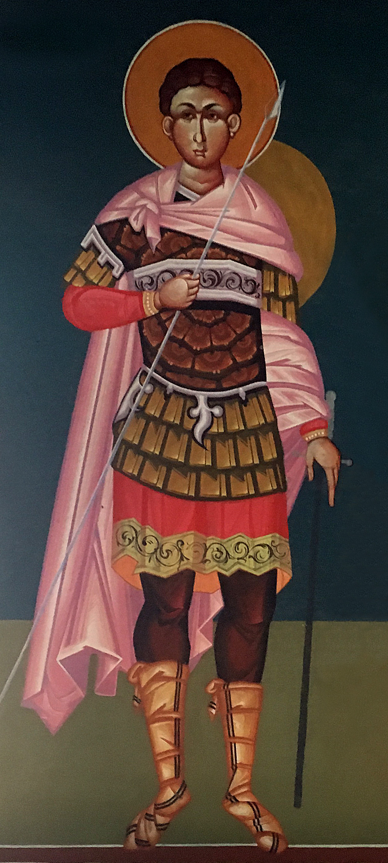 Saint Demetrios of Thessaloniki (contemporary orthodox iconography) Serbia